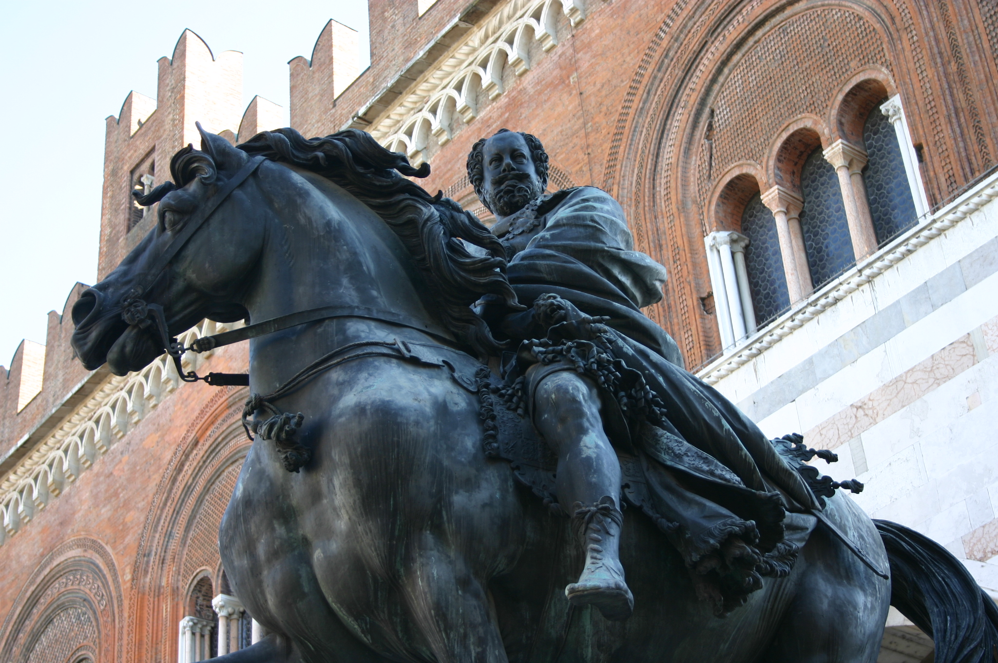 Detail from the bronze monument (dating from 1615) to Ranuccio I Farnese, duke of Parma and Piacenza, was created by Francesco Mochi (1580-1654). It stands in the main square, "Piazza dei cavalli", in Piacenza, Italy. Picture by Giovanni Dall'Orto, July 14 2007.